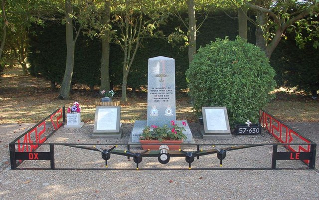 Memorial to Number 57 and 630 Sqn, East Kirkby. The entrance to the East Kirkby Aviation Heritage Museum just outside East Kirkby village, Lincolnshire.